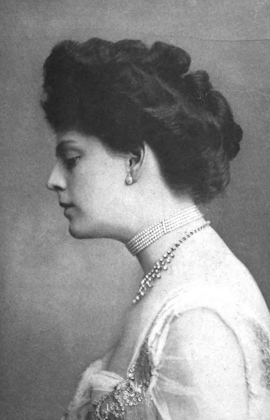 Ethel Barrymore